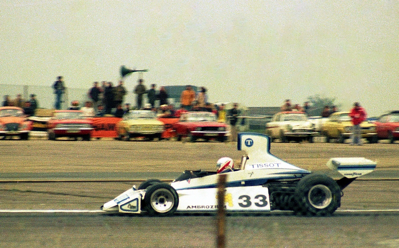 Loris Kessel - Ram Racing Brabham BT44B at the Graham Hill International Trophy 1976 Silverstone